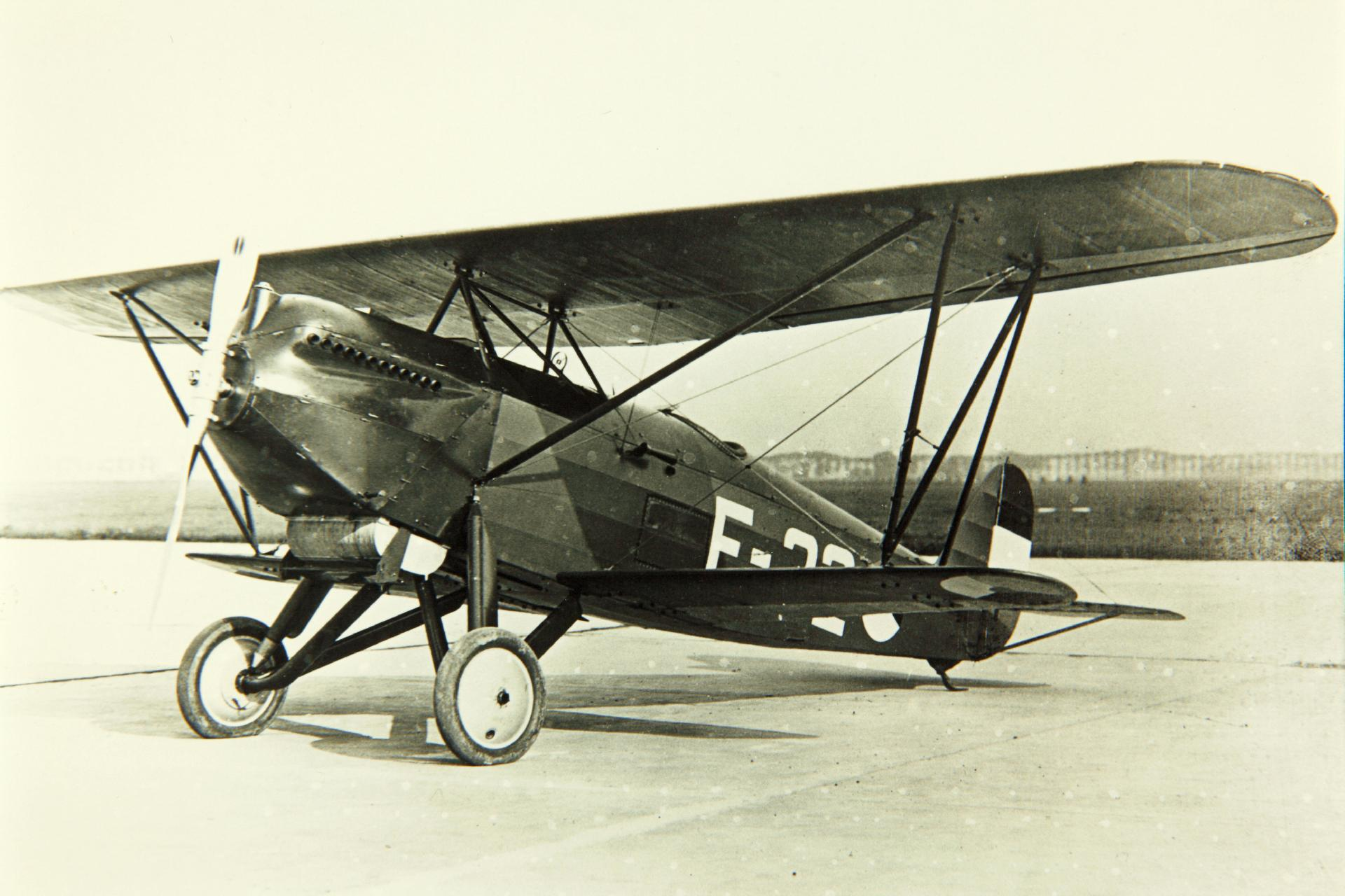 Fokker, D.XVI